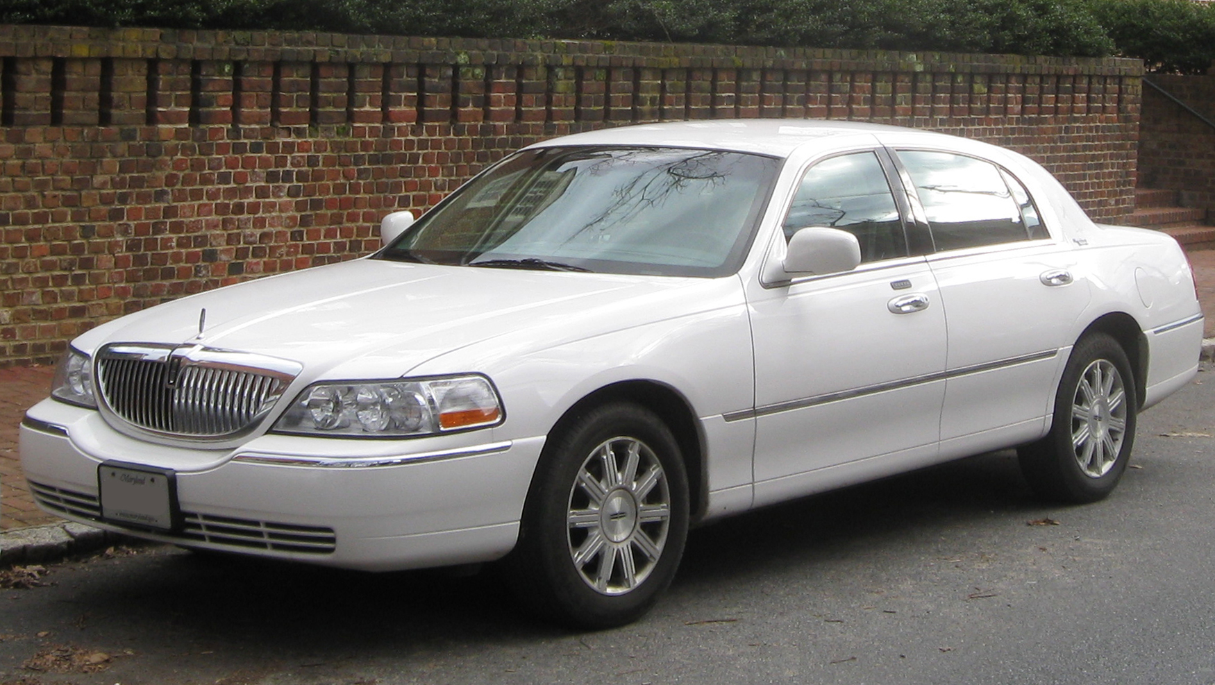 2003-2010 Lincoln Town Car photographed in Annapolis, Maryland, USA.